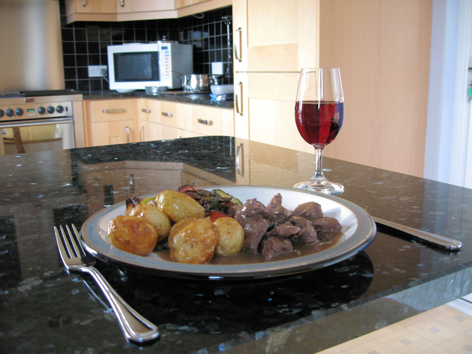 Daube of Comtat Venaissin